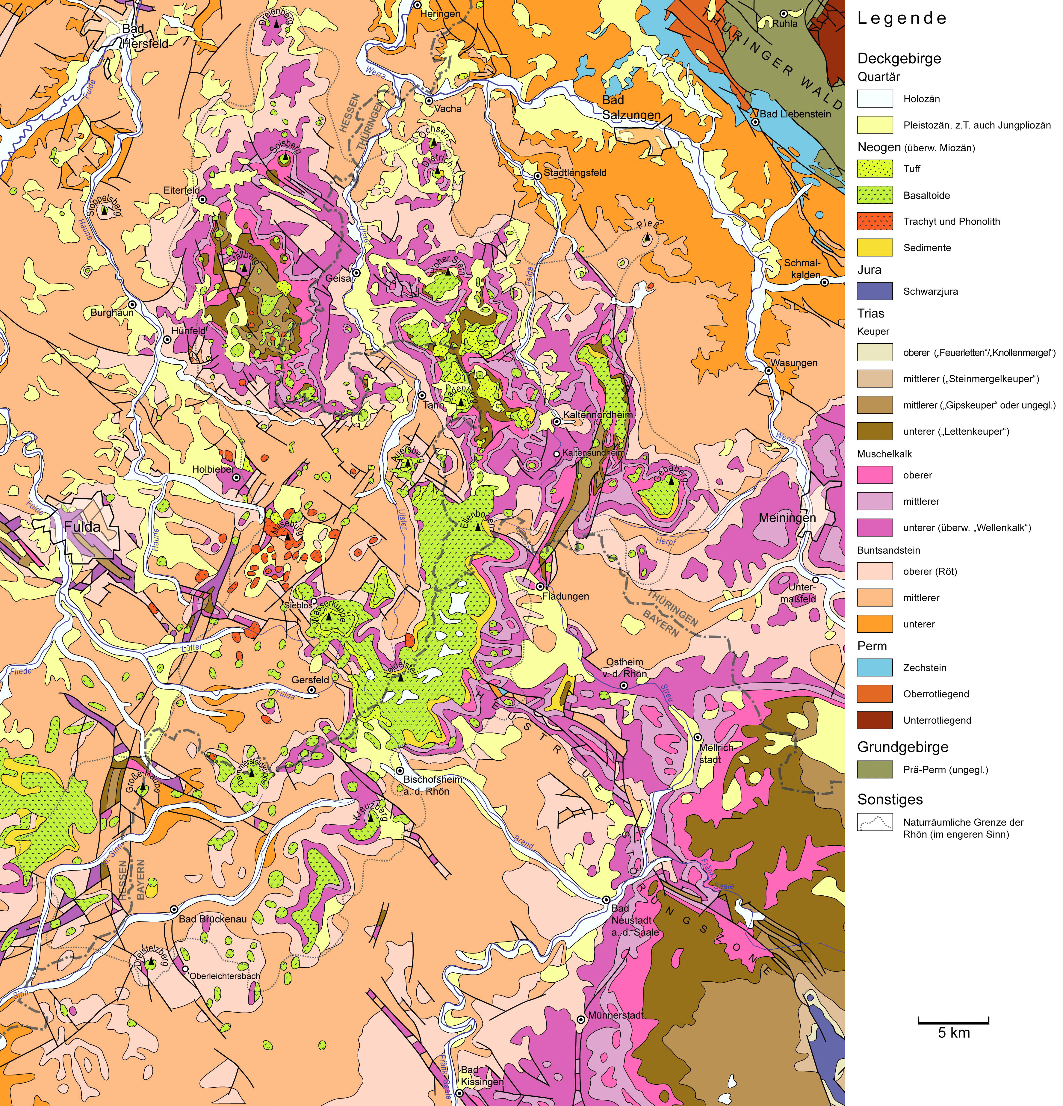 Geological map of the Rhoen Mountains, a volcanic mountain range in Central Germany. Data source: official geological maps of Hesse, Thuringia, and Bavaria.